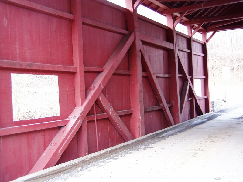 Day Bridge, off Propsperity Pike, Southwestern PA